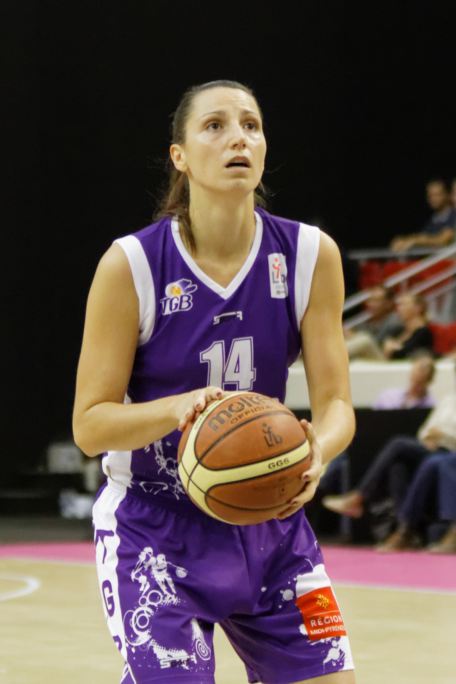 Open LFB, Charleville-Mézières - Tarbes, October 5th, 2013.